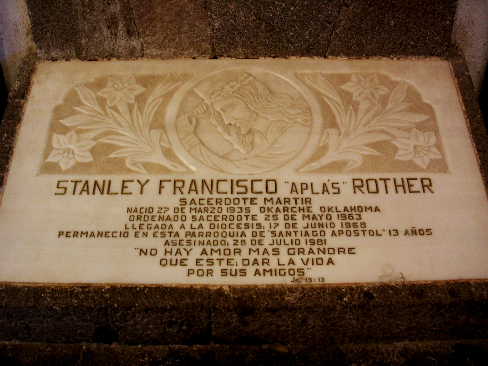 Memorial for Stanley Rother